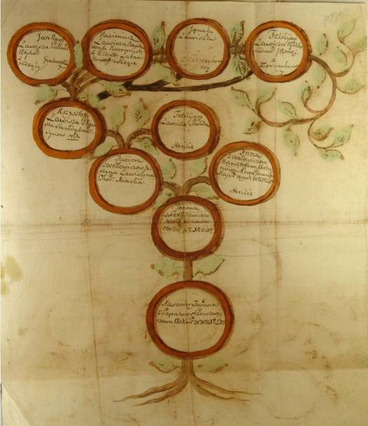 Genealogy tree of the Zawisza family